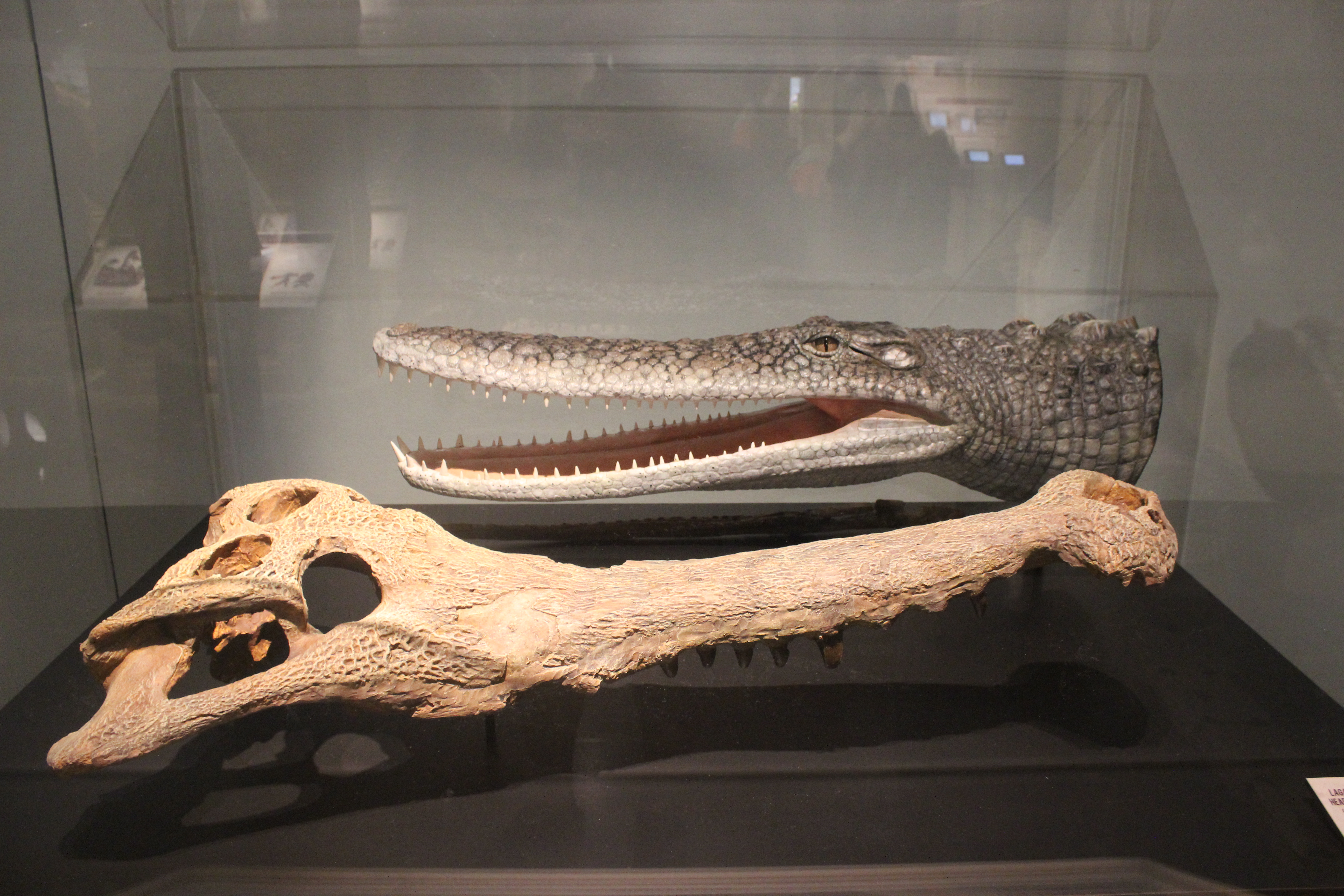 Taken at the National Geographic Museum Spinosaurus Exhibit. Photo by